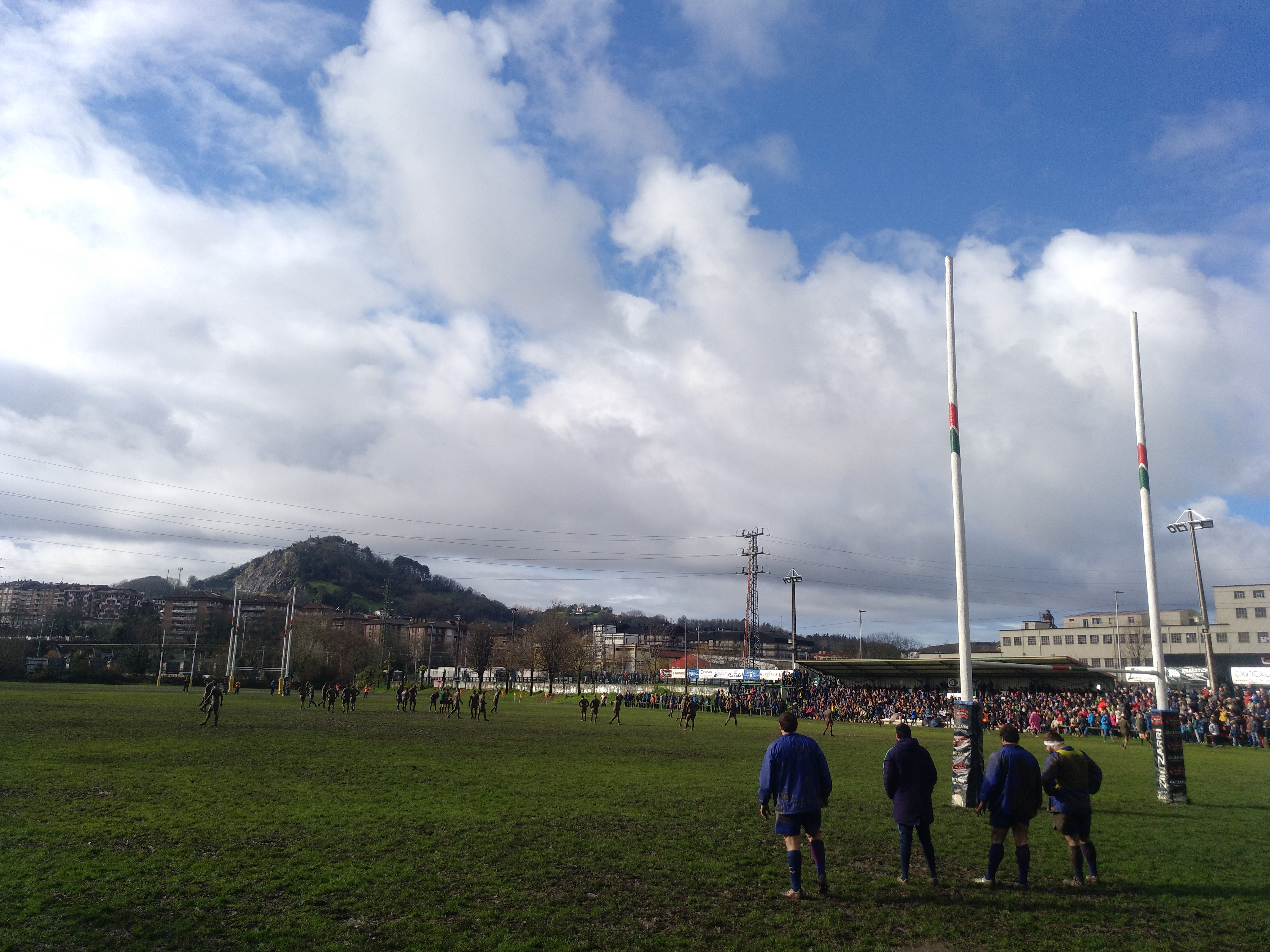 Landare, Hernani Rugby Club's ground